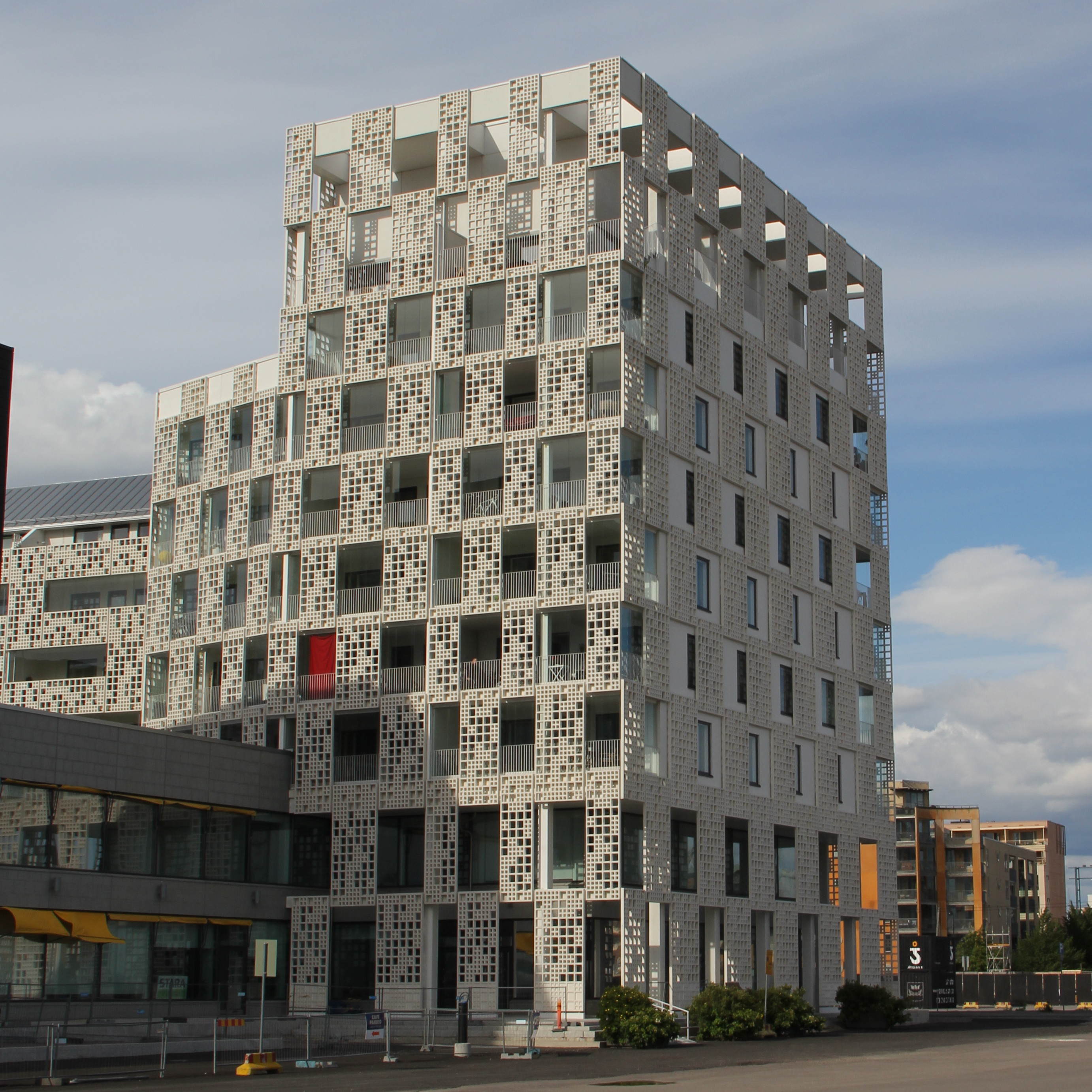 Housing Project Länsisatamankatu 23 in Jätkäsaari, Helsinki, Finland. - Facade, precast fibre reinforced concrete slabs form a cold lace-patterned balcony wall and on the right facade a curtain wall.